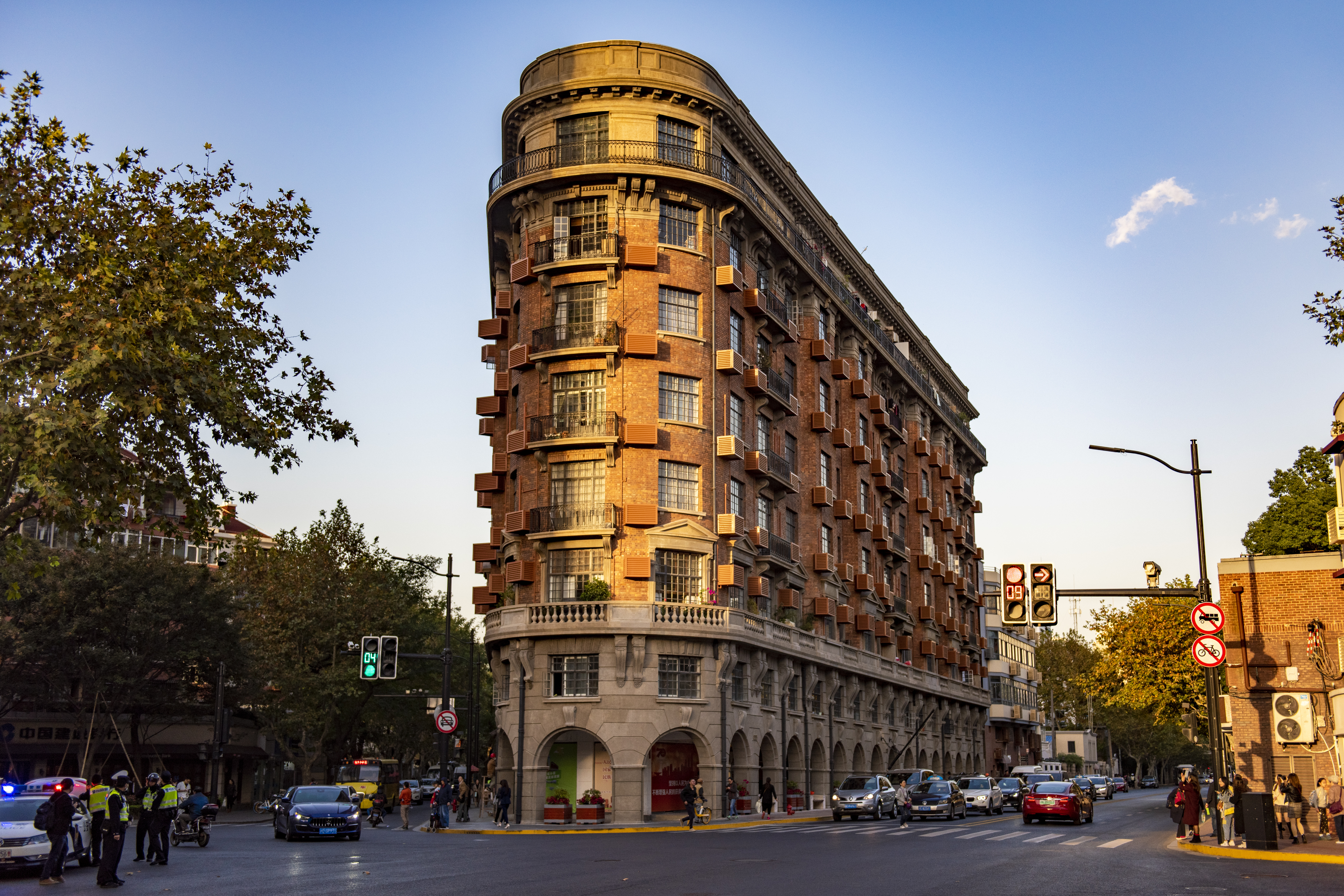 All photographing this.